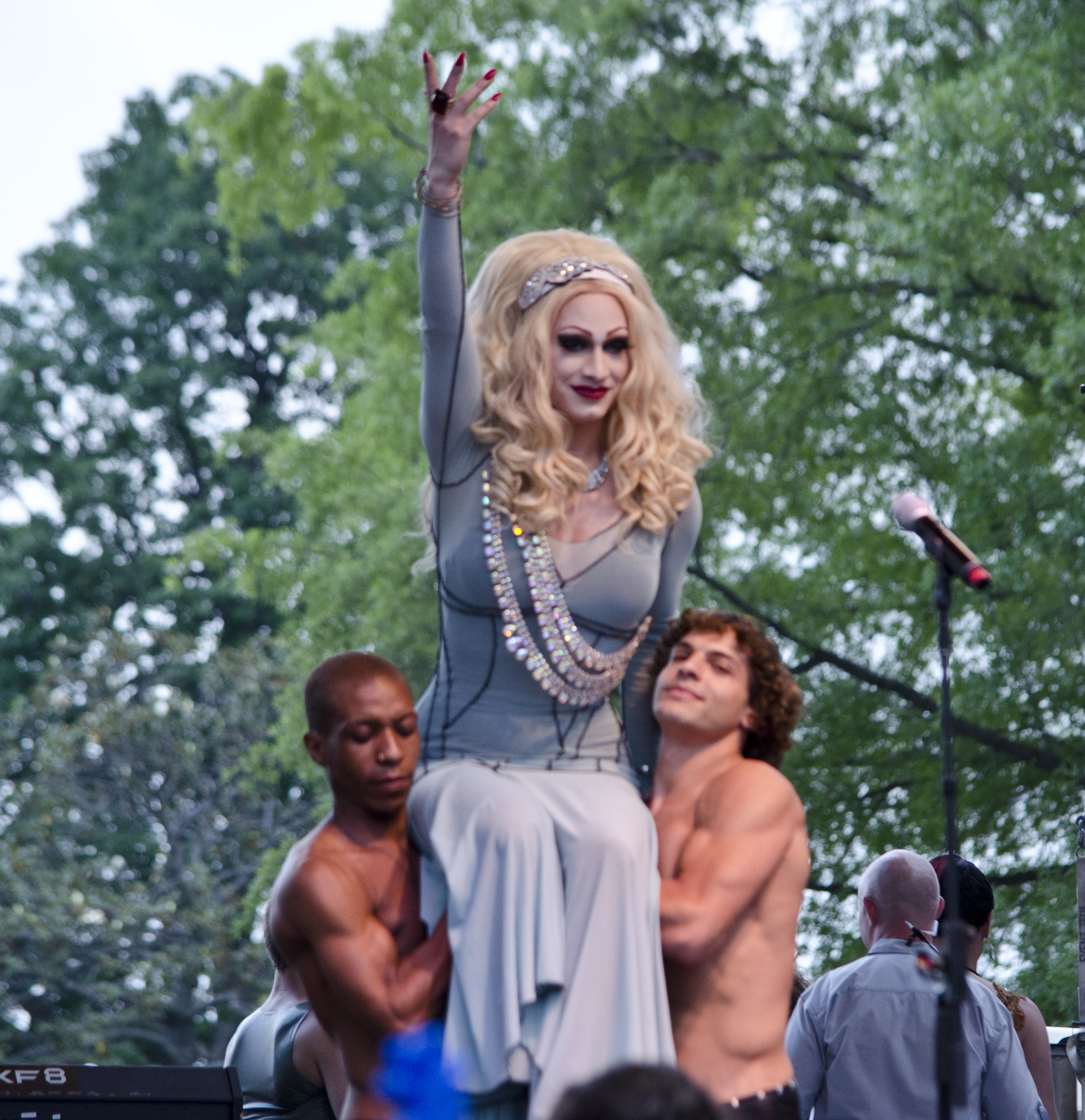 Jinkx Monsoon - Christian Lezzil 001 - DC Capital Pride street festival - 2013-06-09